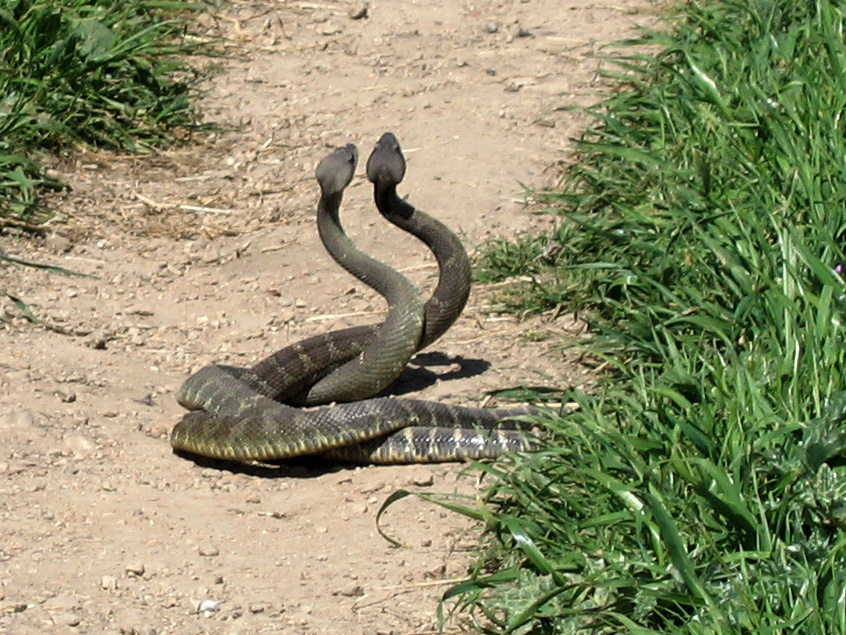 Rattlesnake Dance, Portola Valley, Windy Hill Open Space Preserve, San Mateo County, California. – "It seemed like part dance, part wrestling match. I thought they might be courting, but it's a combat ritual between two male Northern Pacific Rattlenakes (Crotalus oreganus oreganus)."